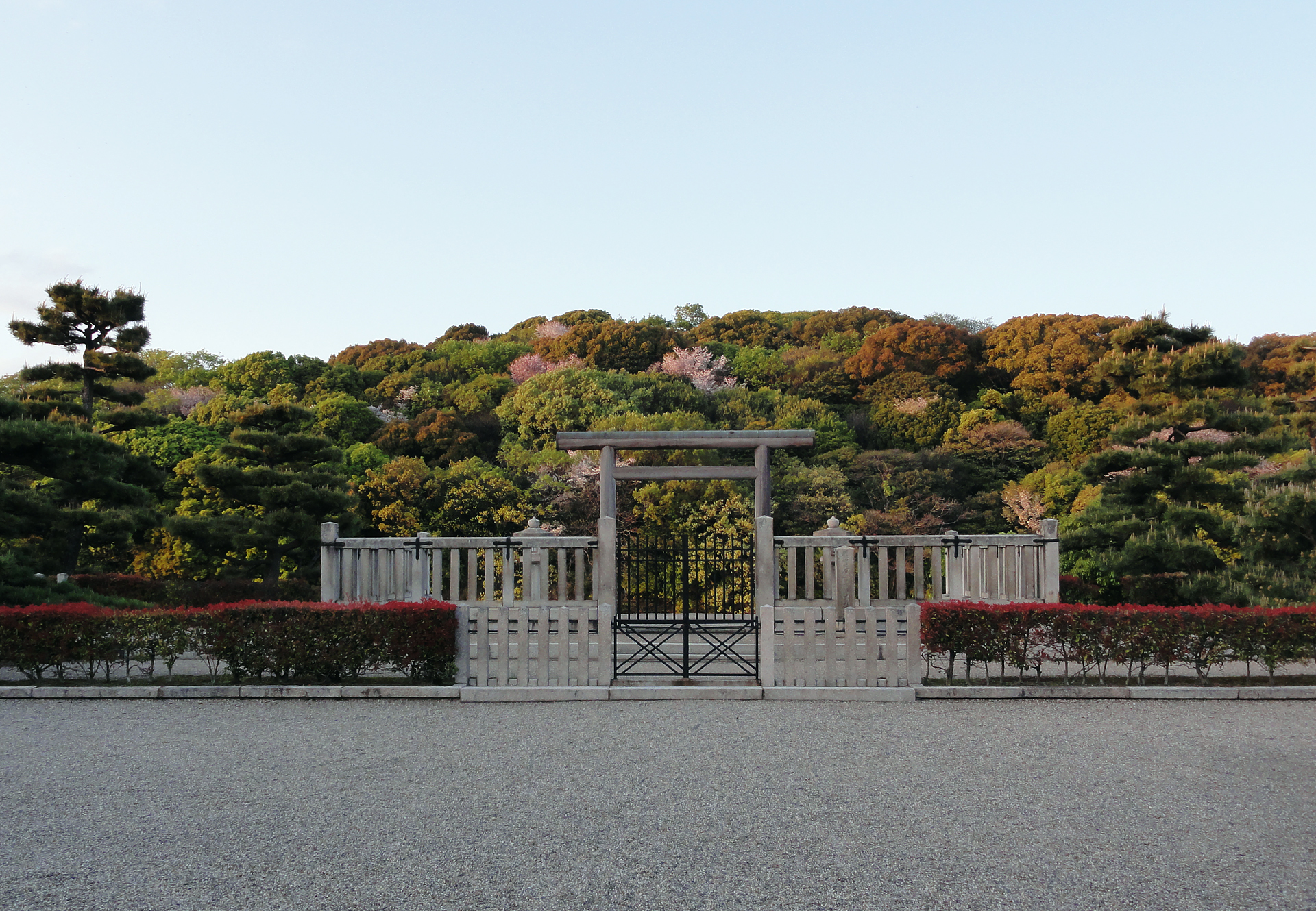 Richu-ryo Tumulus